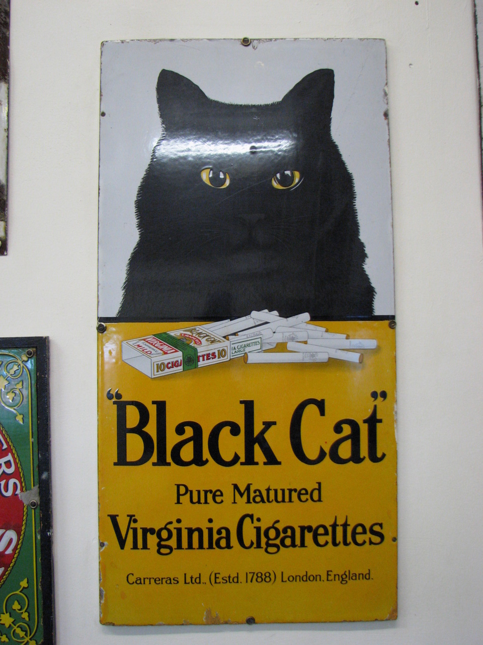 Beamish Museum, County Durham, England. This old sign advertising Black Cat cigarettes hangs in the Entrance building.